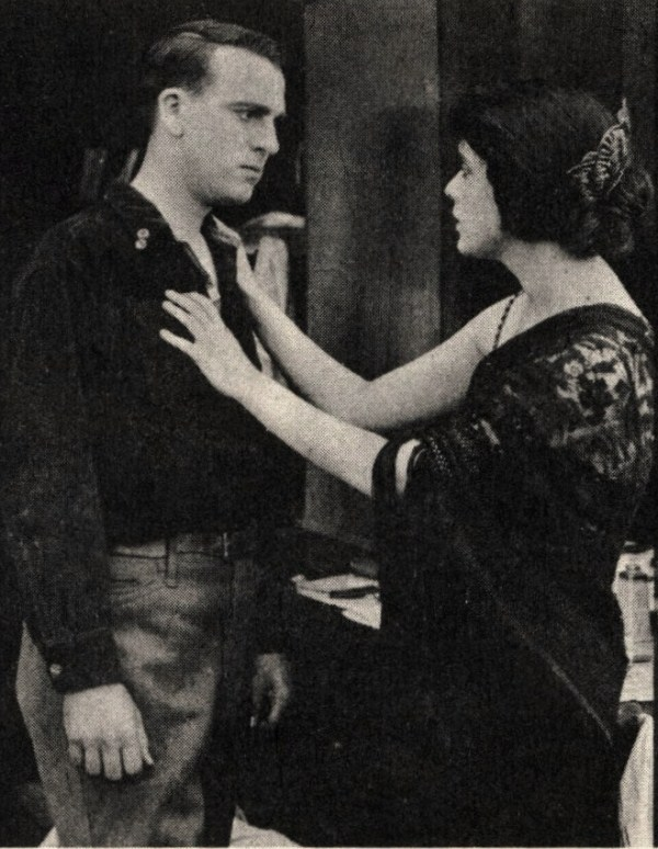 Charles Gunn and Alma Rubens in the film The Firefly of Tough Luck (1917) - cropped screenshot